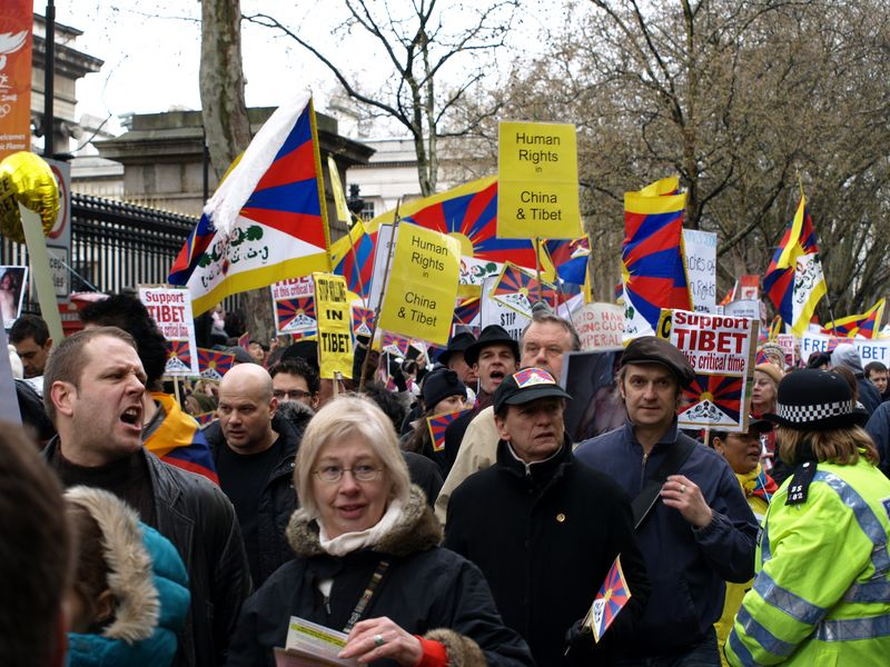 Olympic Torch Relay London 2008 protestors